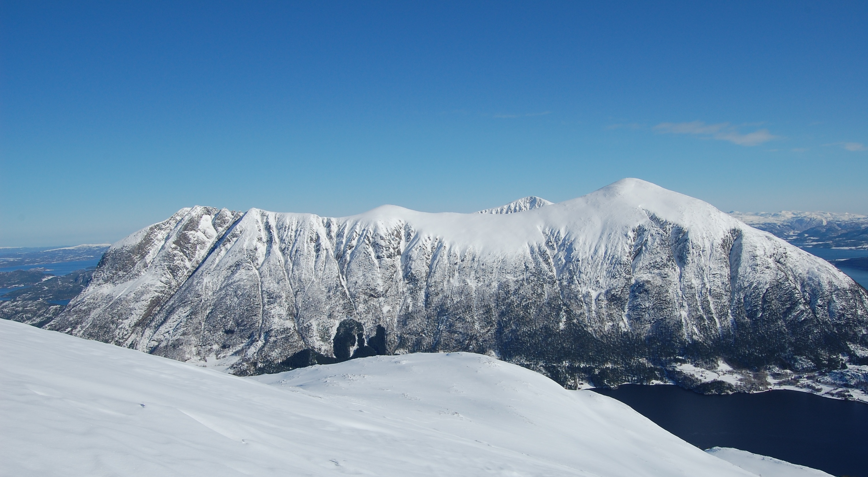 The mountains Stabben and Innerbergsalen in Aure municipality, Møre og Romsdal.